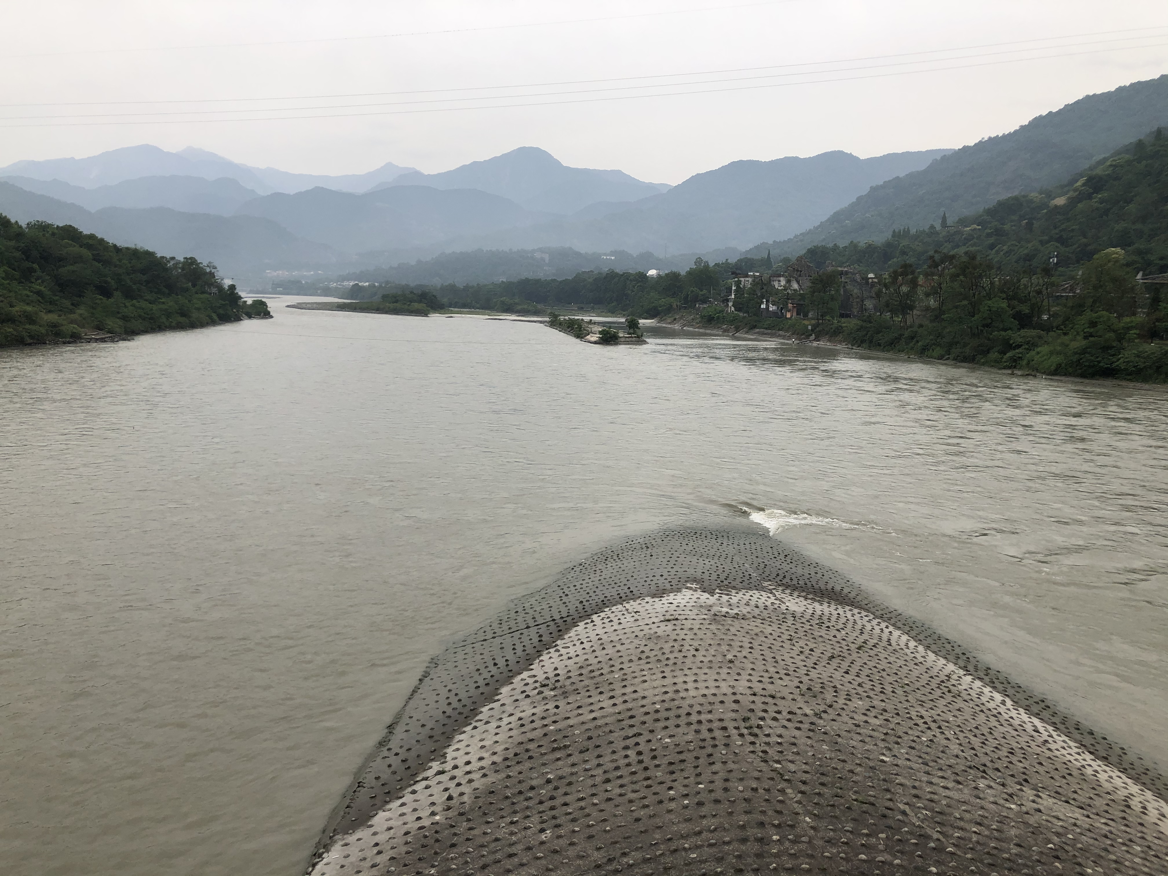 Part of Dujiangyan Irrigation System, Chengdu, Sichuan, China